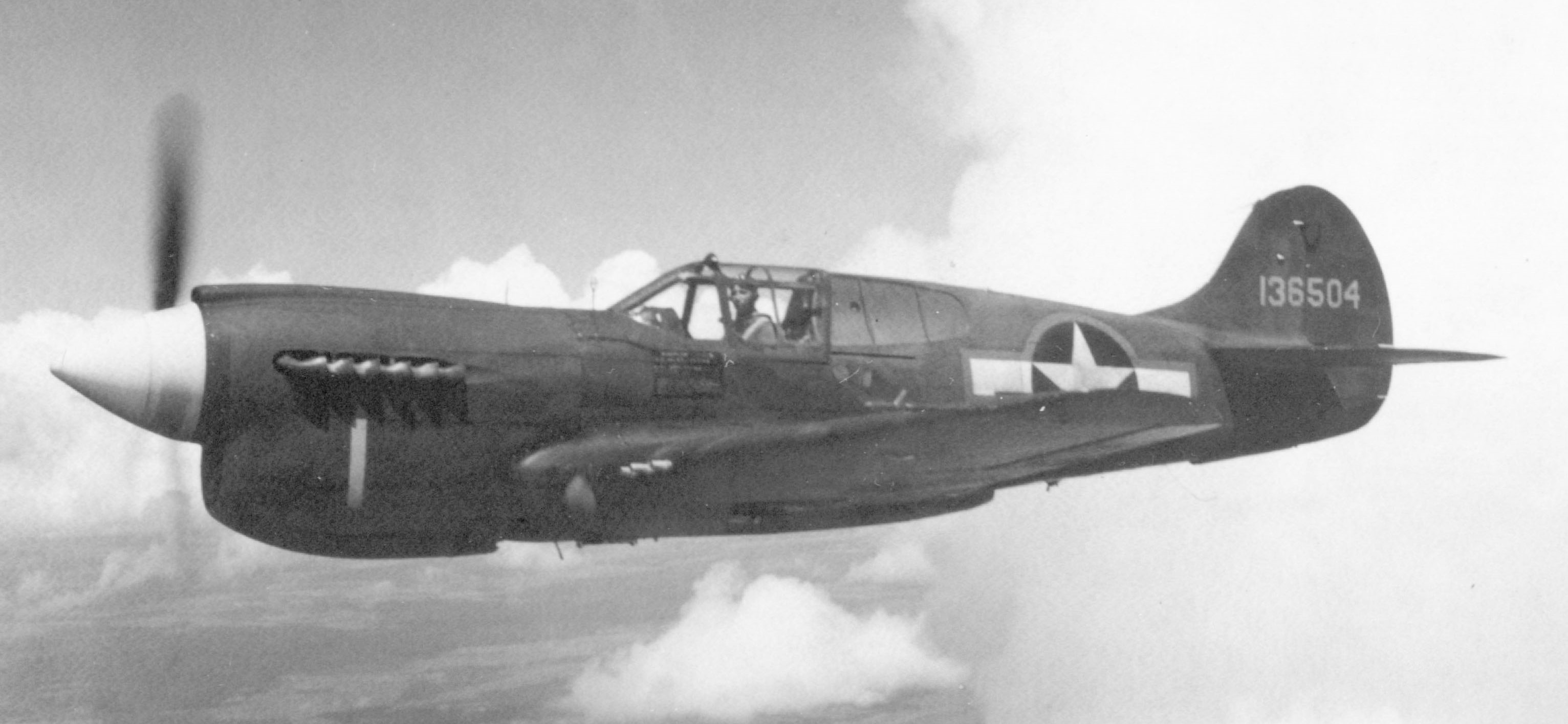 A Curtiss P-40E-CU Warhawk 41-36504 in flight